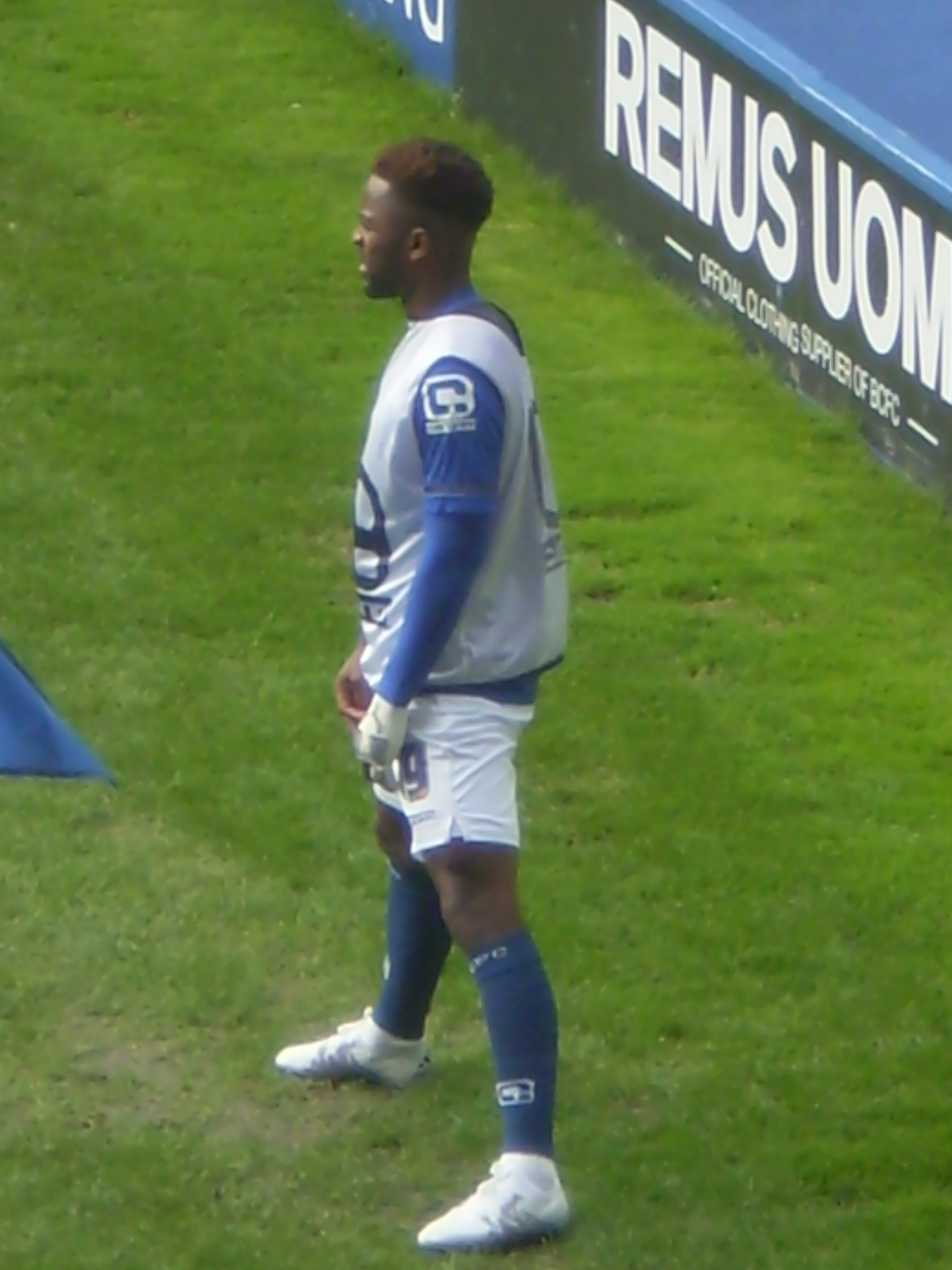 Jacques Maghoma of Birmingham City F.C. warming up during a match at St Andrew's in September 2015